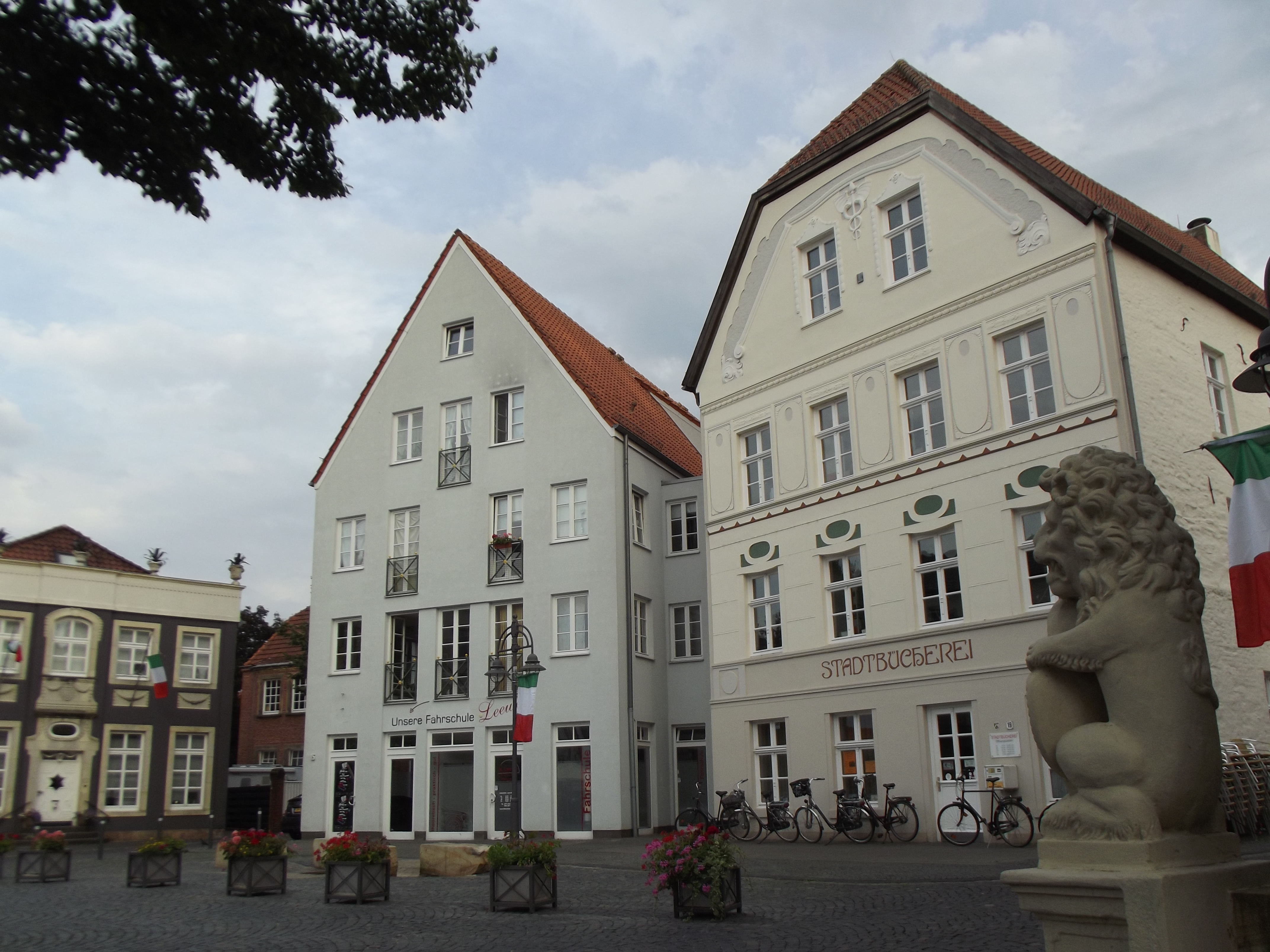 Marketplace Burgsteinfurt including a building that is mentioned in the English Wiki article on Steinfurt